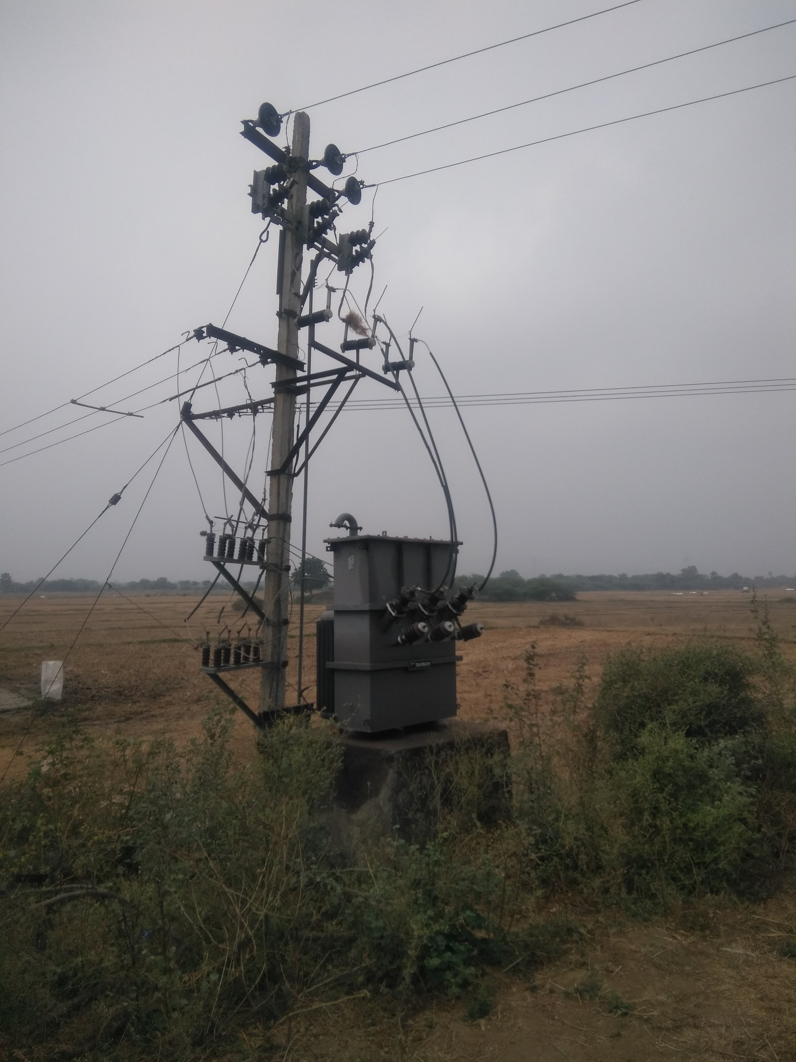 Transformer in agriculture field.